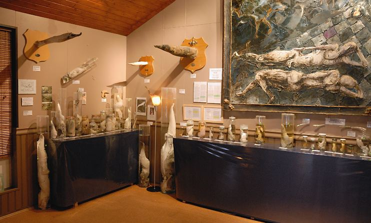 Inside the Husavik phallus museum of Sigurður Hjartasson